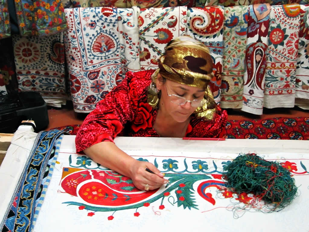 A needlework artist at the Registan in Samarkand, Uzbekistan.